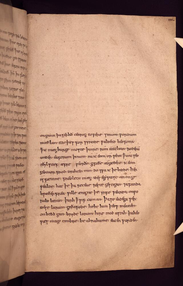 'The Cædmon Manuscript': parts of Genesis, Exodus and Daniel in Old English verse, illustrated with Anglo-Saxon drawings, c. A.D. 1000.; 101